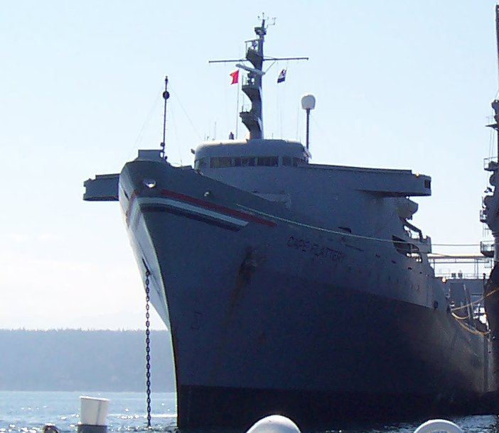 SS Cape Flattery (AK-5070) moored, date and location unknown. US Navy photo.